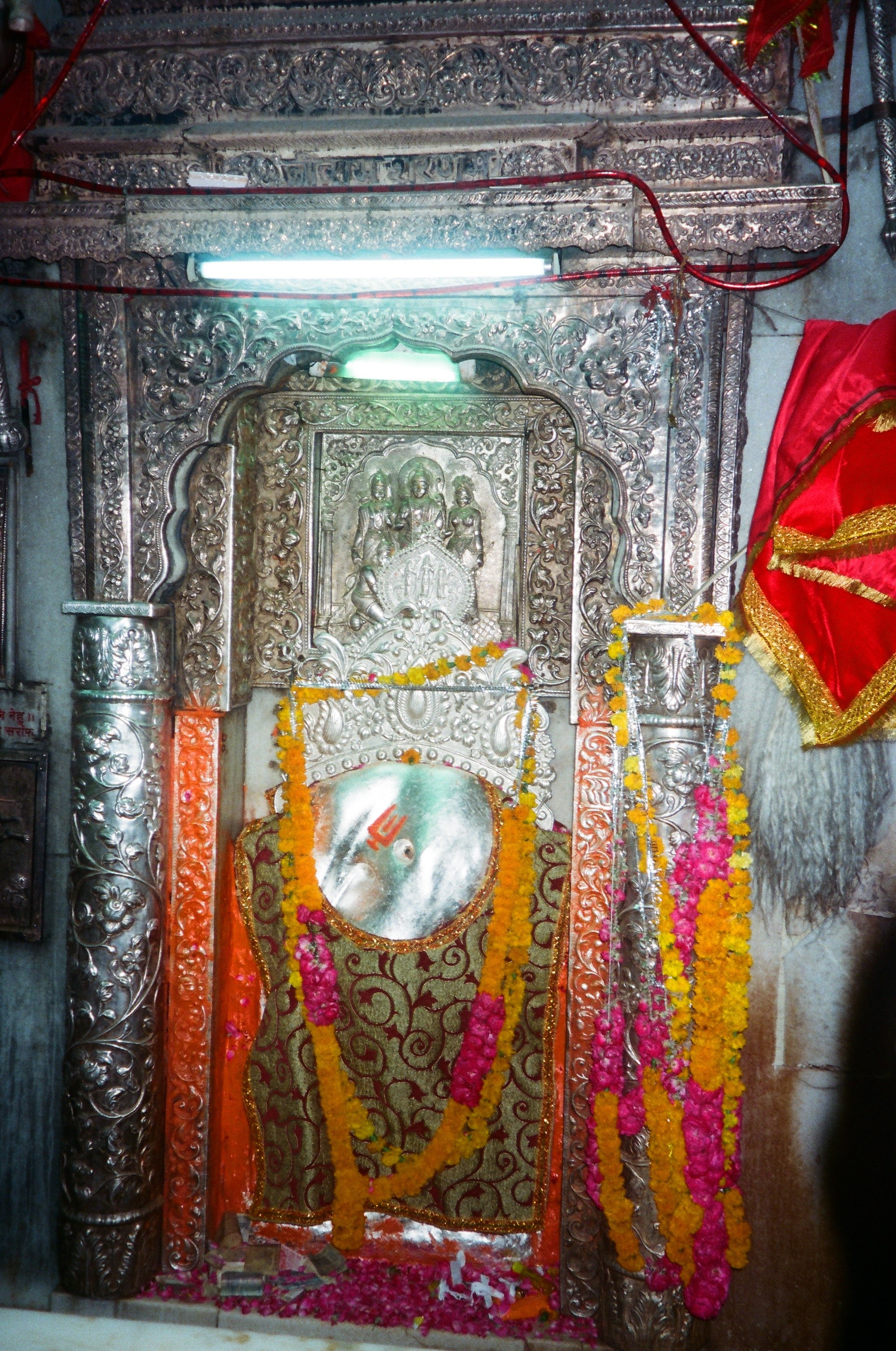 Baby Hanuman on North side wall in sanctum in Hanuman temple, Connaught Place